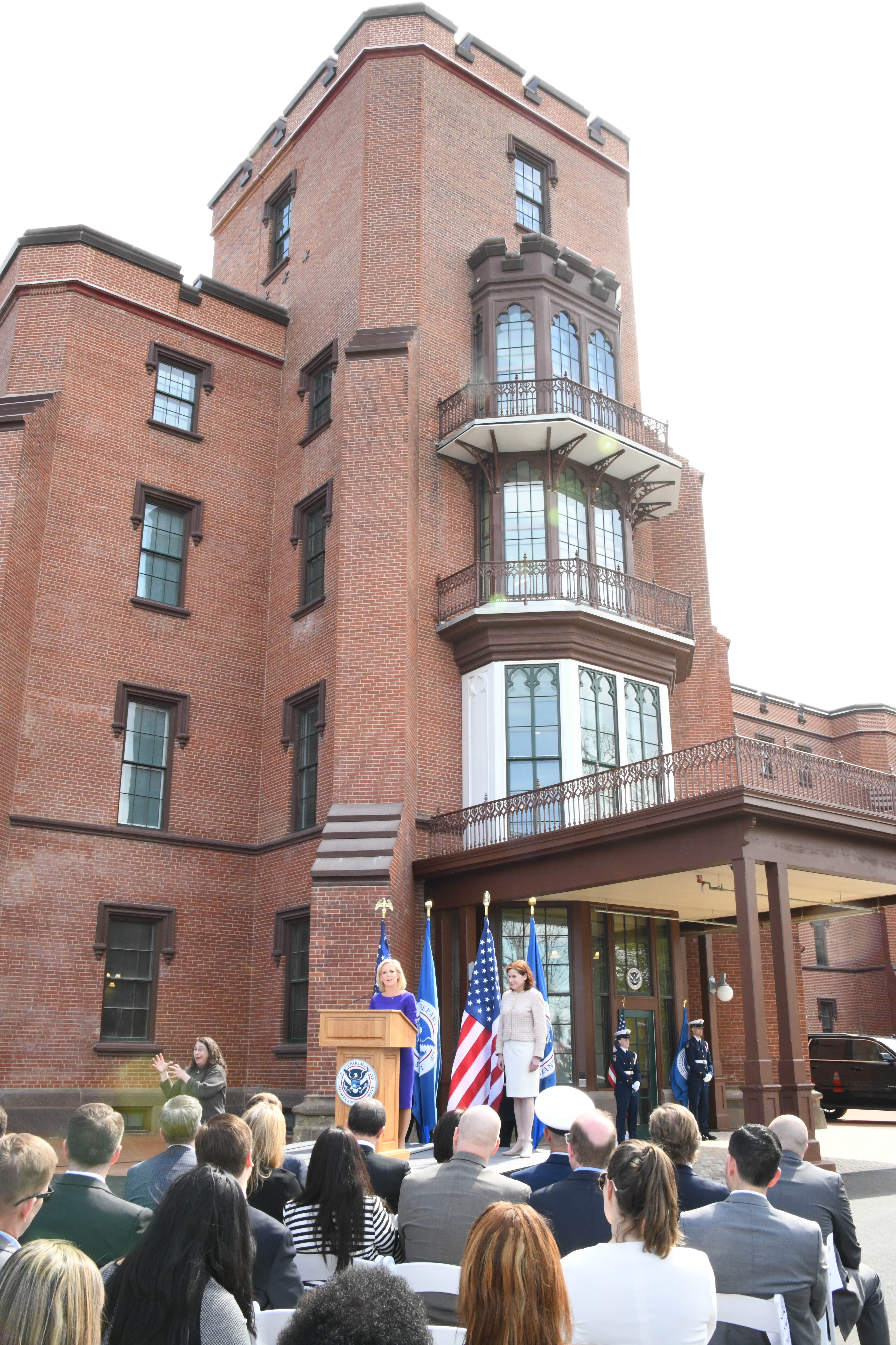 WASHINGTON (April 10, 2019) Department of Homeland Security’s new headquarters is ceremoniously opened during at ceremony at the St. Elizabeth’s campus in Washingon. (DHS photo by Tara Molle/Released)